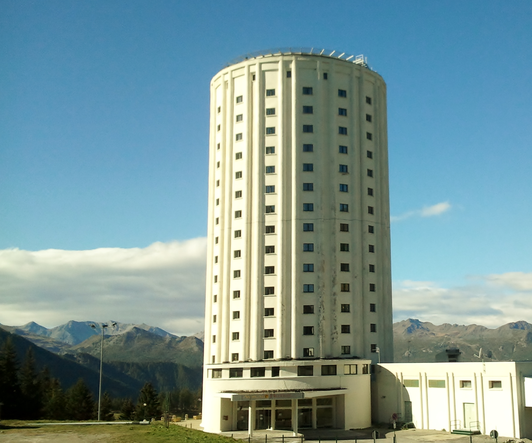 Colonia Fiat Sestriere